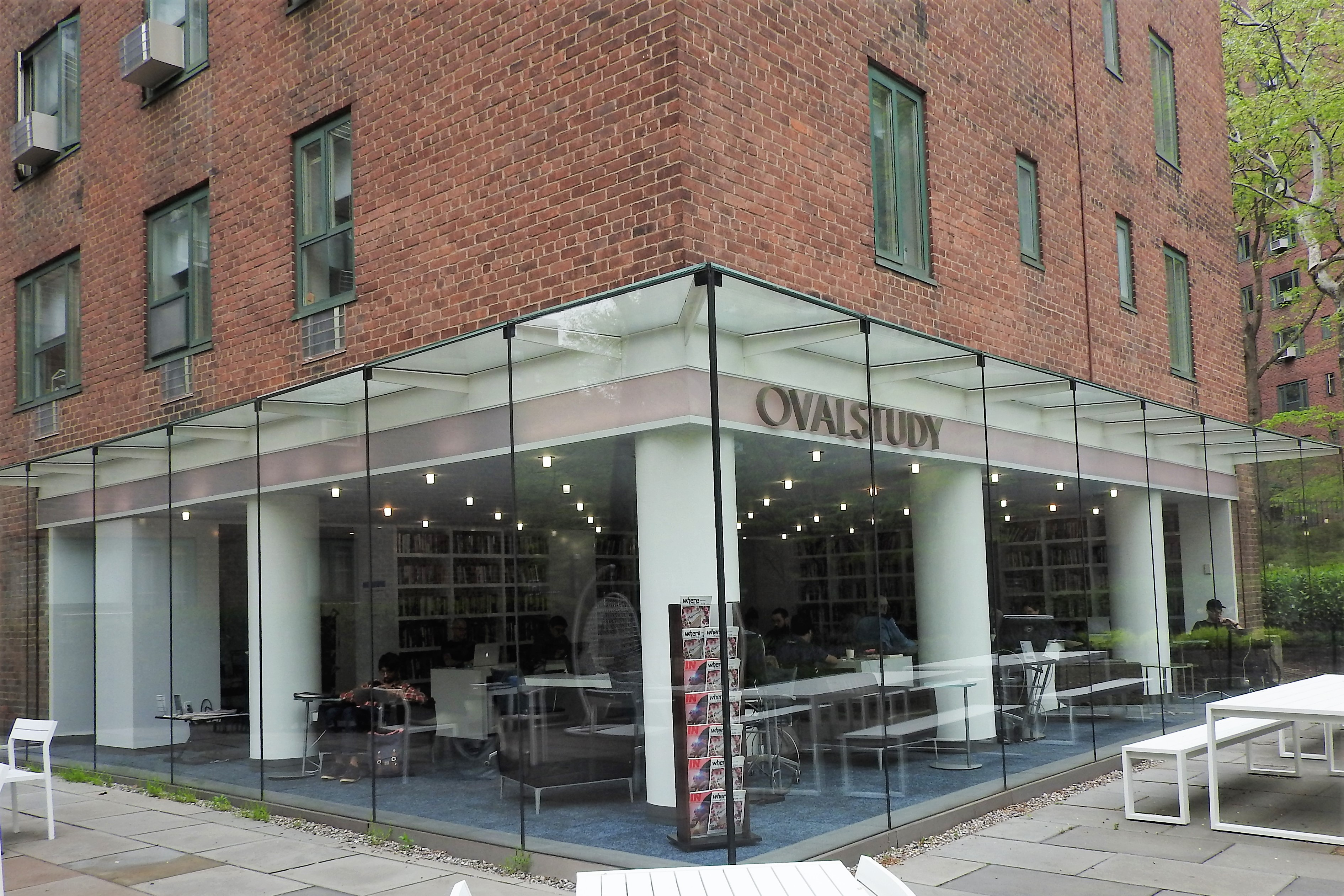 Looking north from the central Oval on a cloudy day.